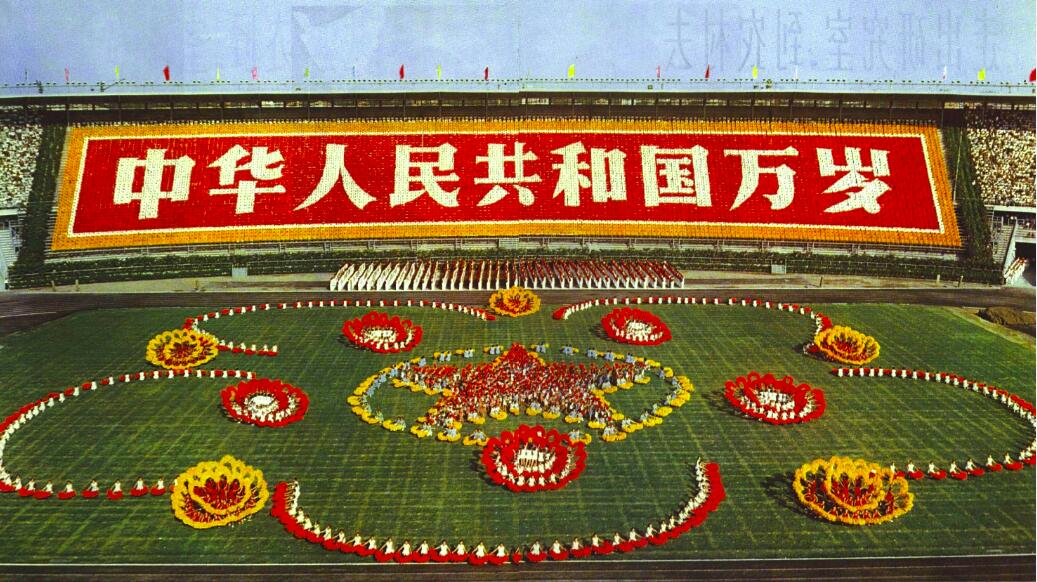 1965-12 1965年全运会团体操 革命赞歌2